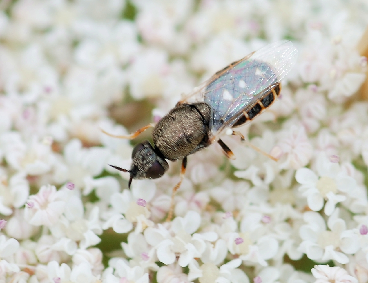 Fly of the Stratiomyidae family (female Nemotelus pantherinus)